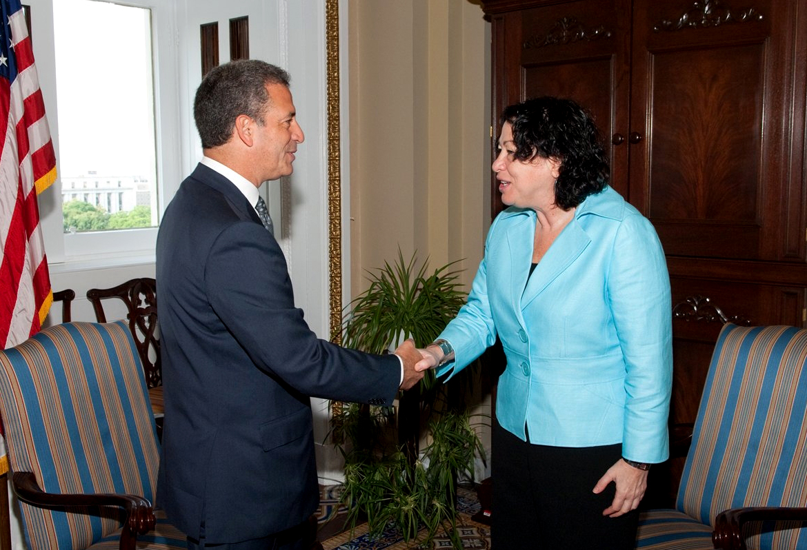 Senator Russ Feingold of Wisconsin with Supreme Court nominee Sonia Sotomayor.